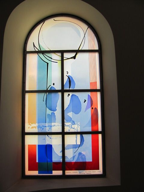 St. Catherine, Kiev